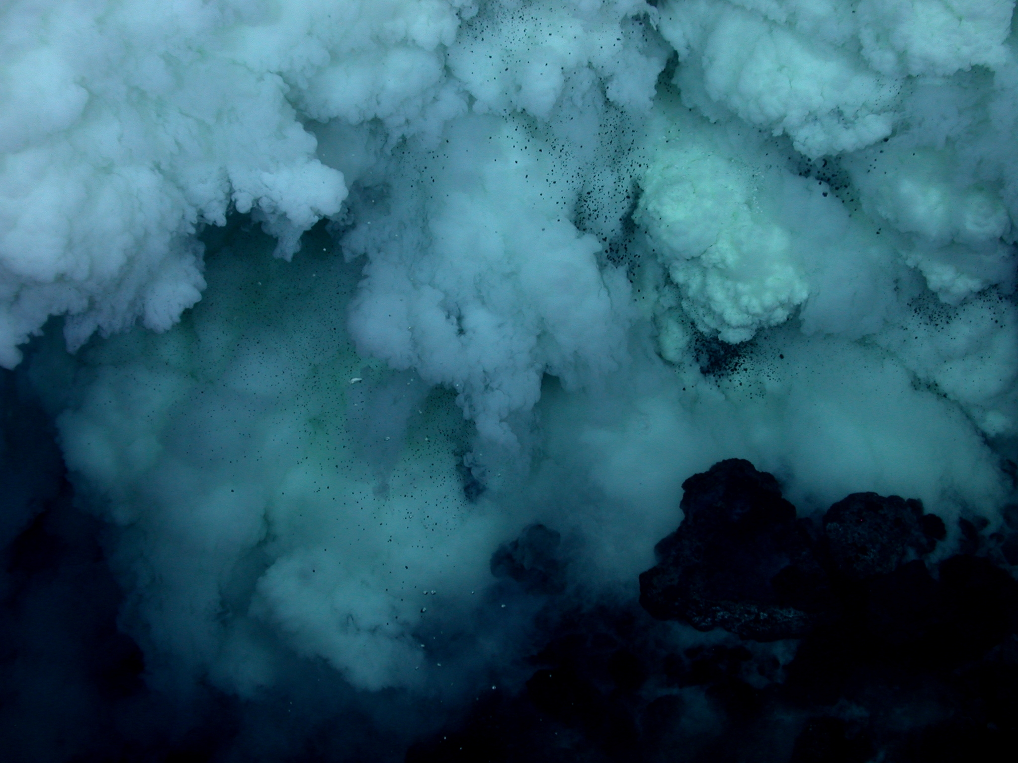 Ring of Fire 2006 Expedition. Diving at NW Rota-1 Brimstone Pit.